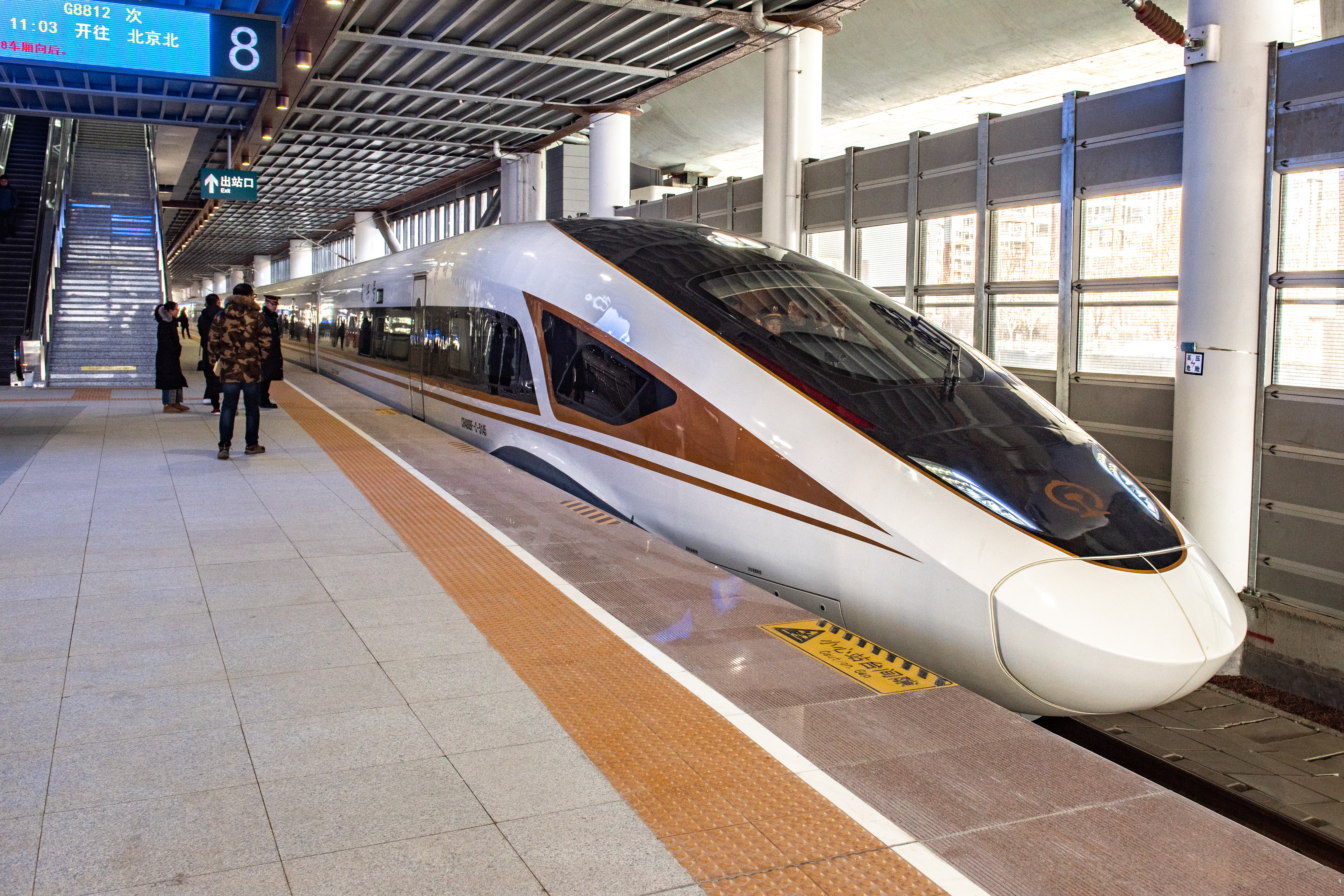 G8812 from Taizicheng, Chongli. Today is the first day operation of Beijing-Zhangjiakou HSR and its Chongli branch, and this "intelligent" train is seen arriving at Platform 8 of this renovated station.